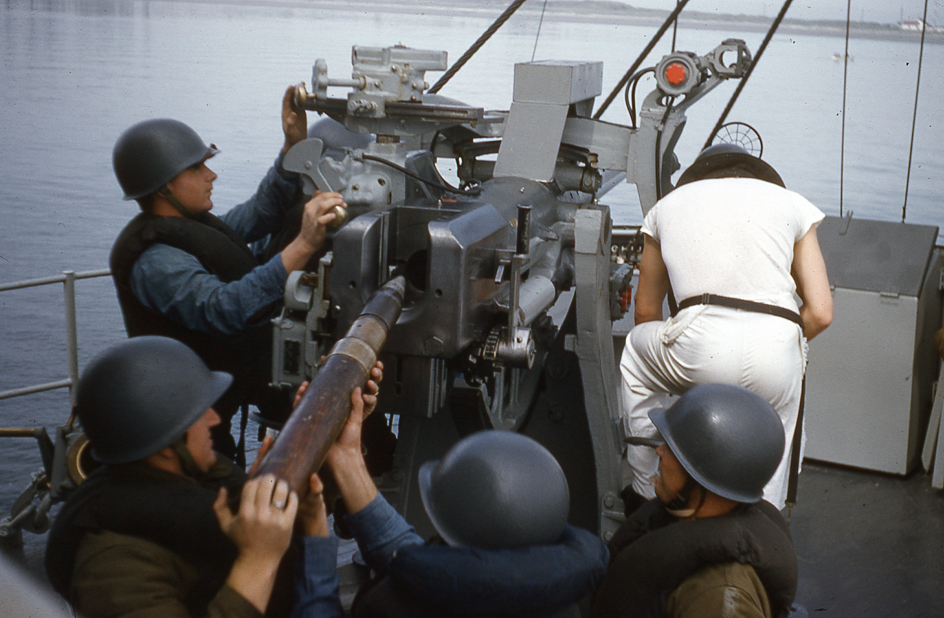 USS Elder